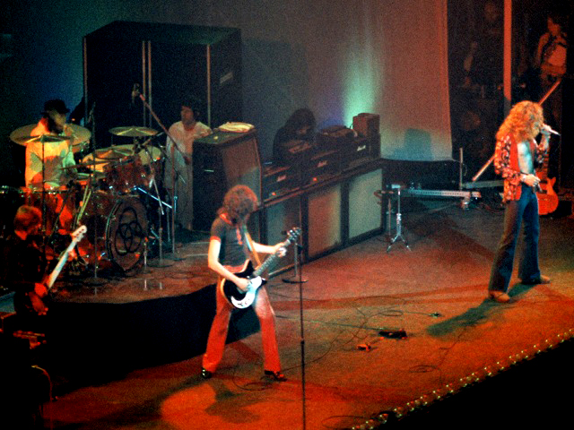 Led Zeppelin performing at Chicago Stadium in 1975